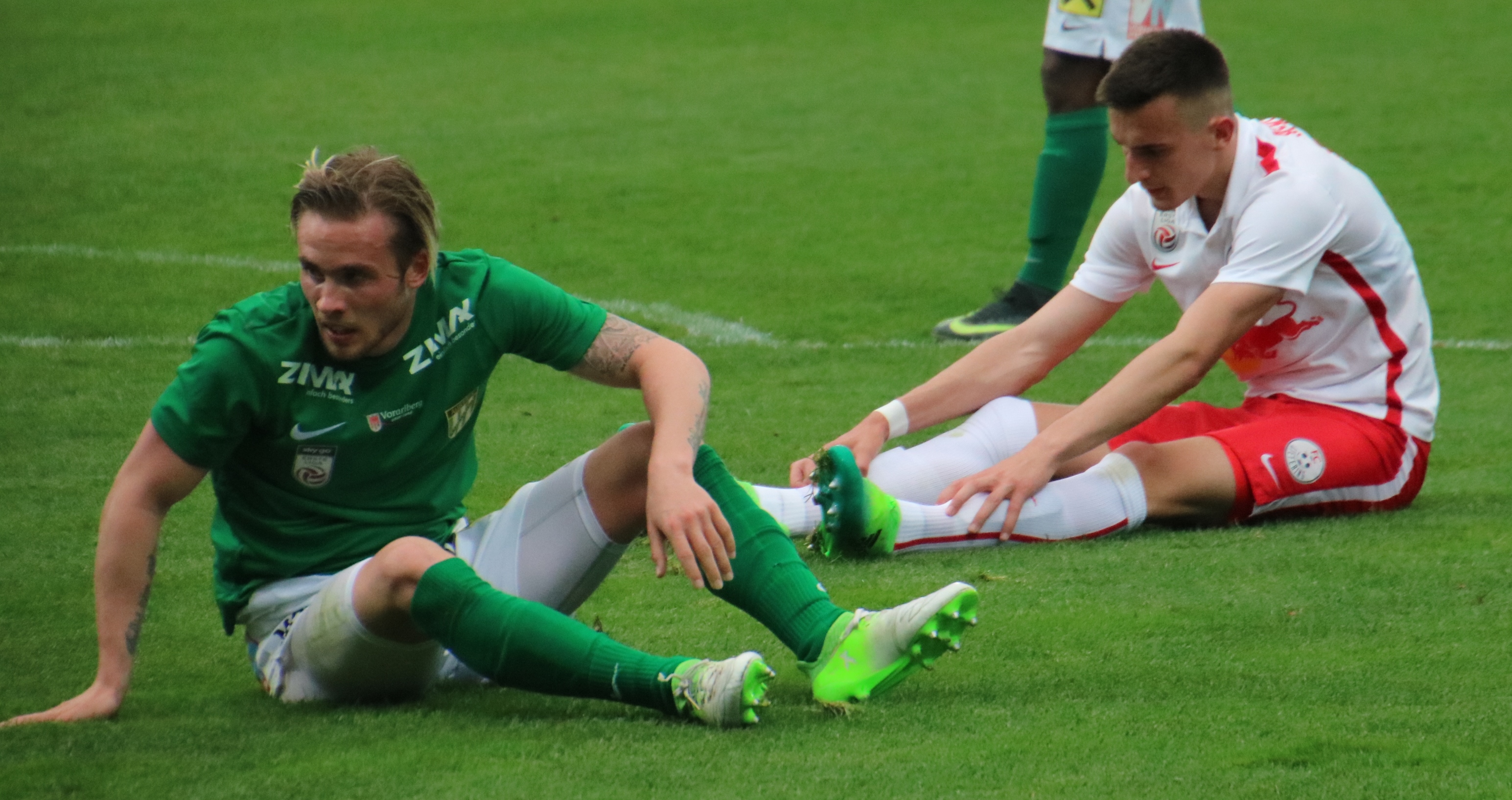 league match Austria 2nd league